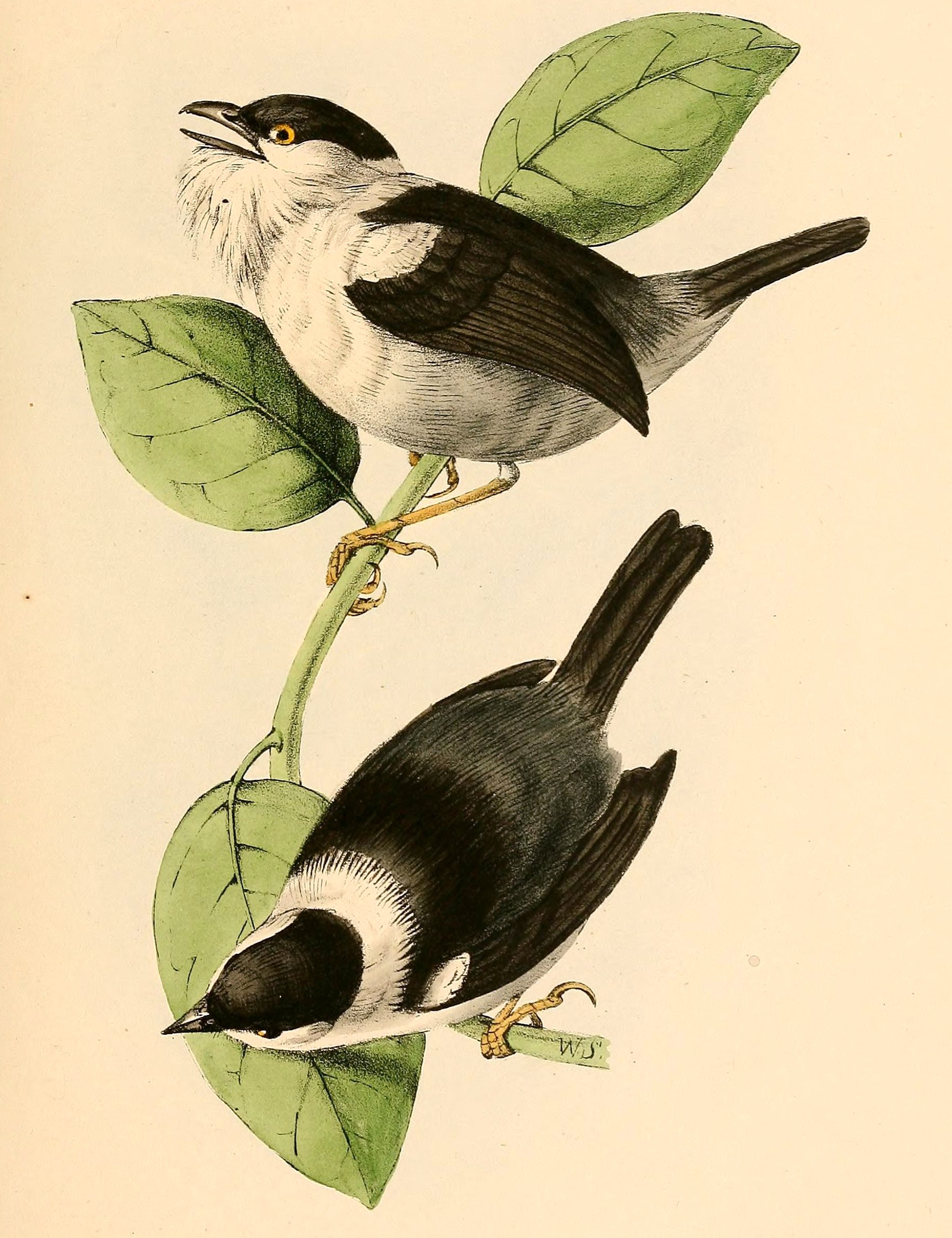 Pipra manacus = Manacus manacus (White-bearded Manakin)